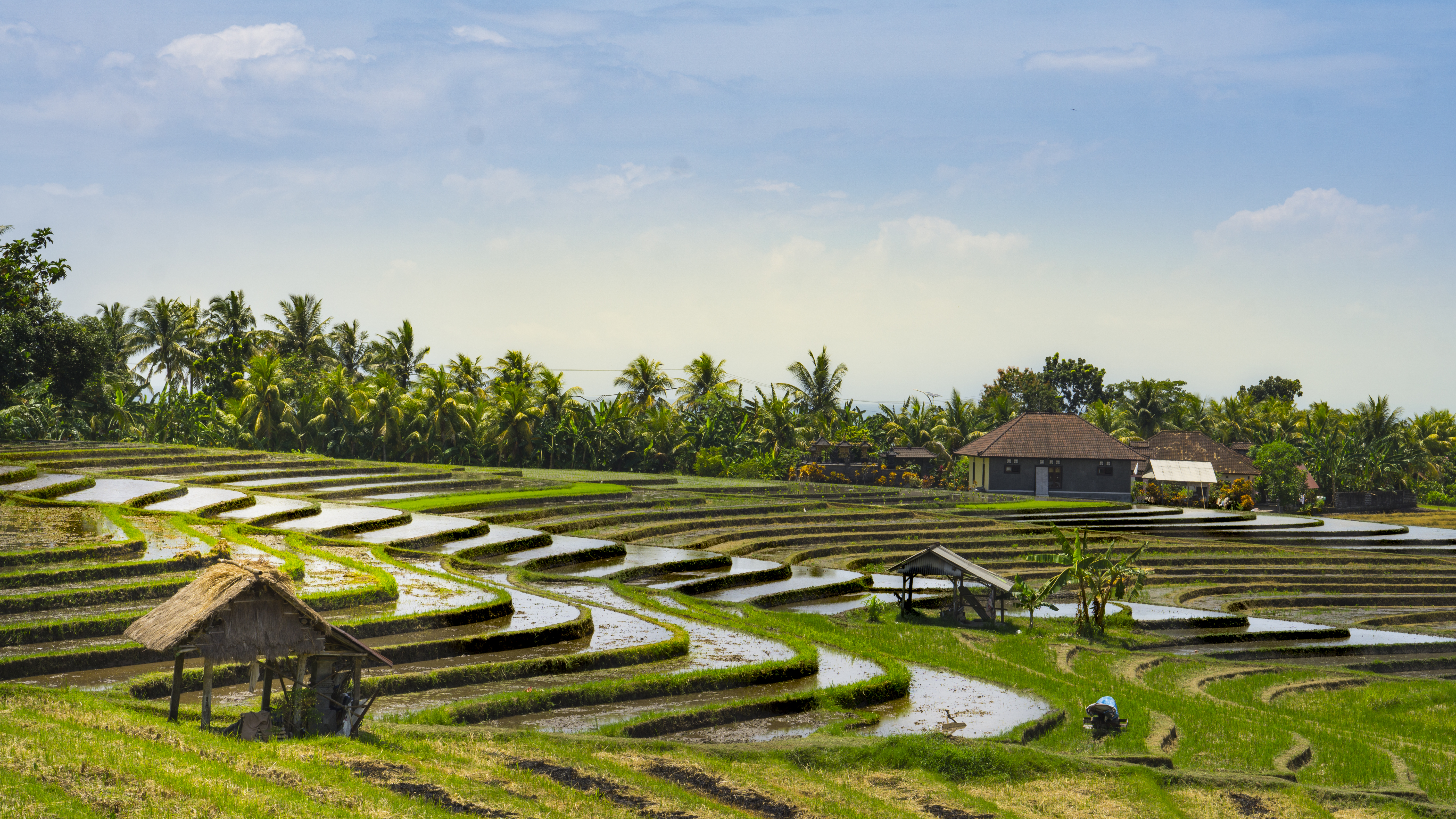 A photo taken during my travels in Indonesia, the country with the most beautiful nature I have seen.